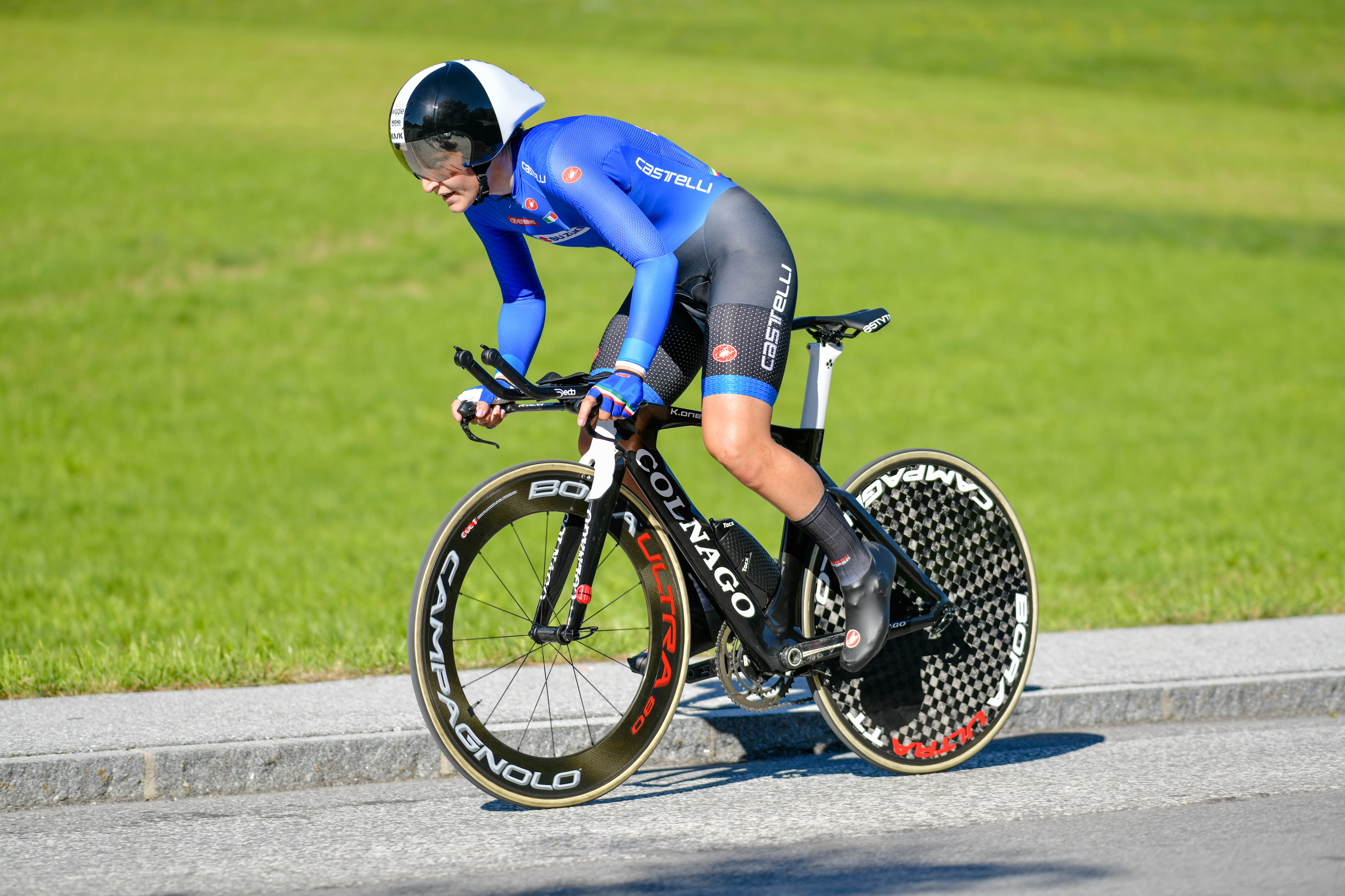 2018 UCI Road World Championships Innsbruck/Tirol Women Elite Individual Time Trial. Picture shows: Elisa Longo Borghini of Italy